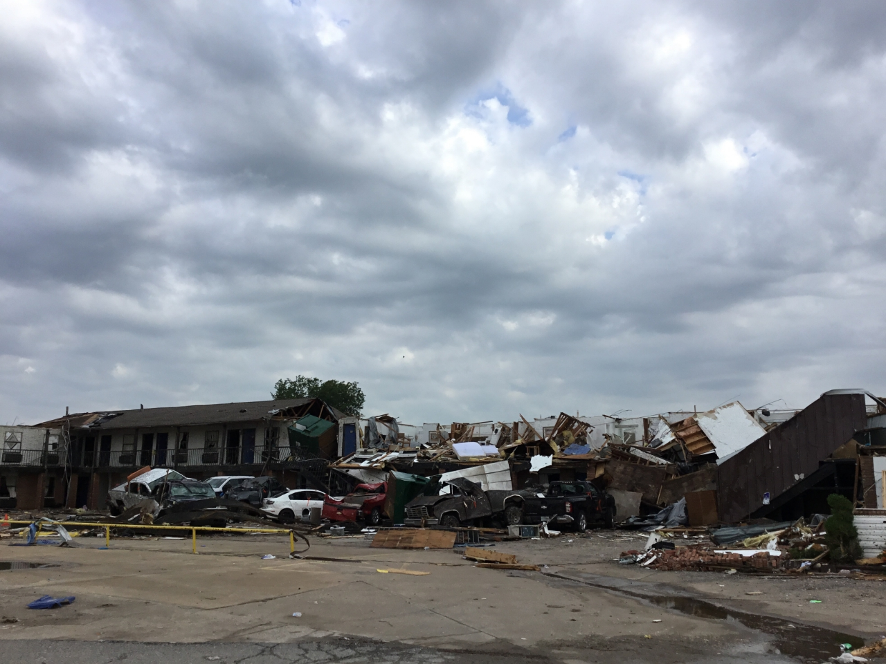 EF3 damage to the Budget Value Inn motel in El Reno, Oklahoma.